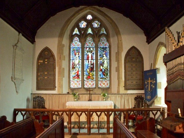 Adlestrop Church of St Mary Magdalene Glos A view of the Stain glass window